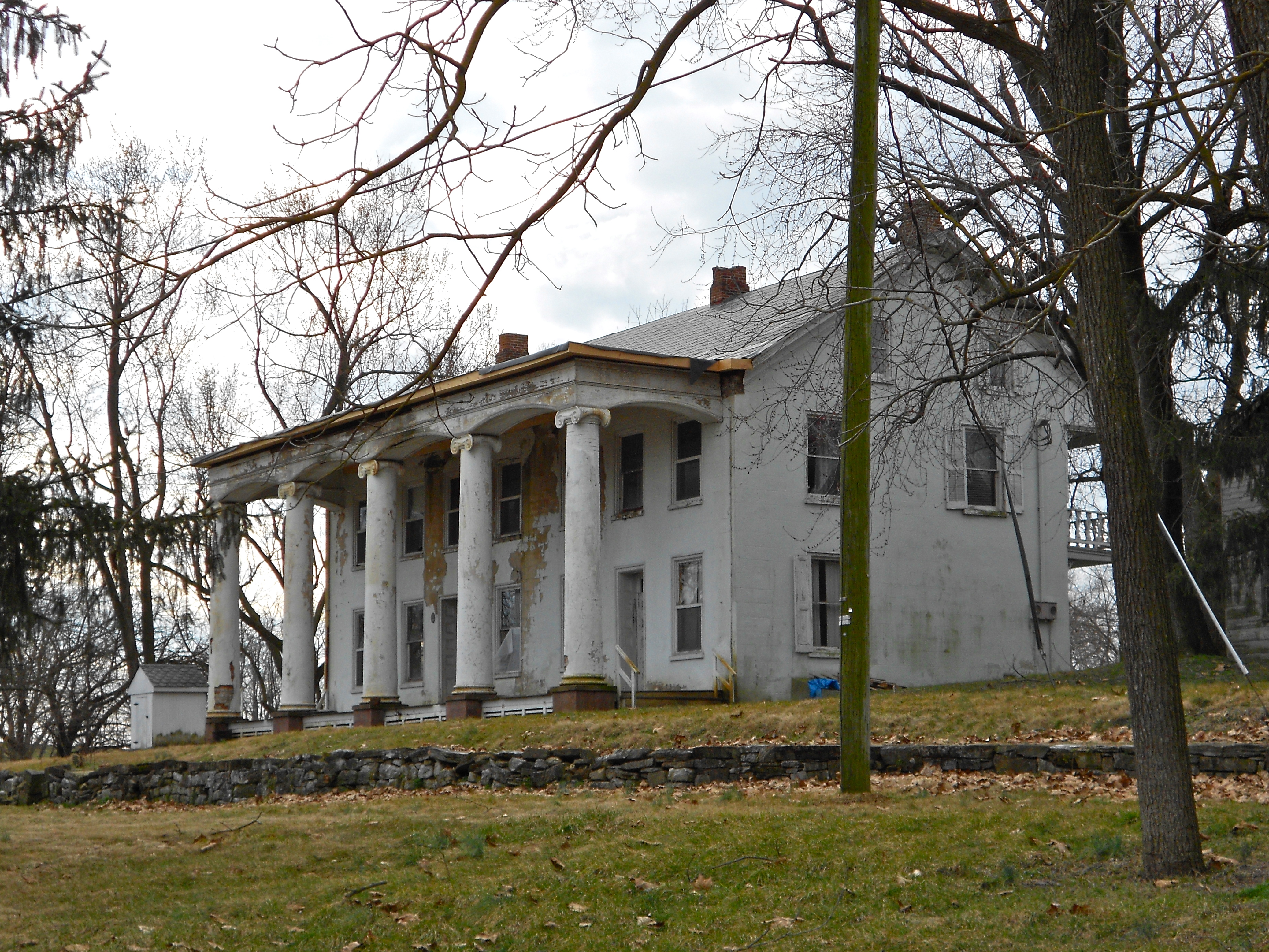 Donegal Mills Plantation on the NRHP since January 20, 1978 Southwest of Mount Joy on Trout Run Road in East Donegal Township, Lancaster County, Pennsylvania.